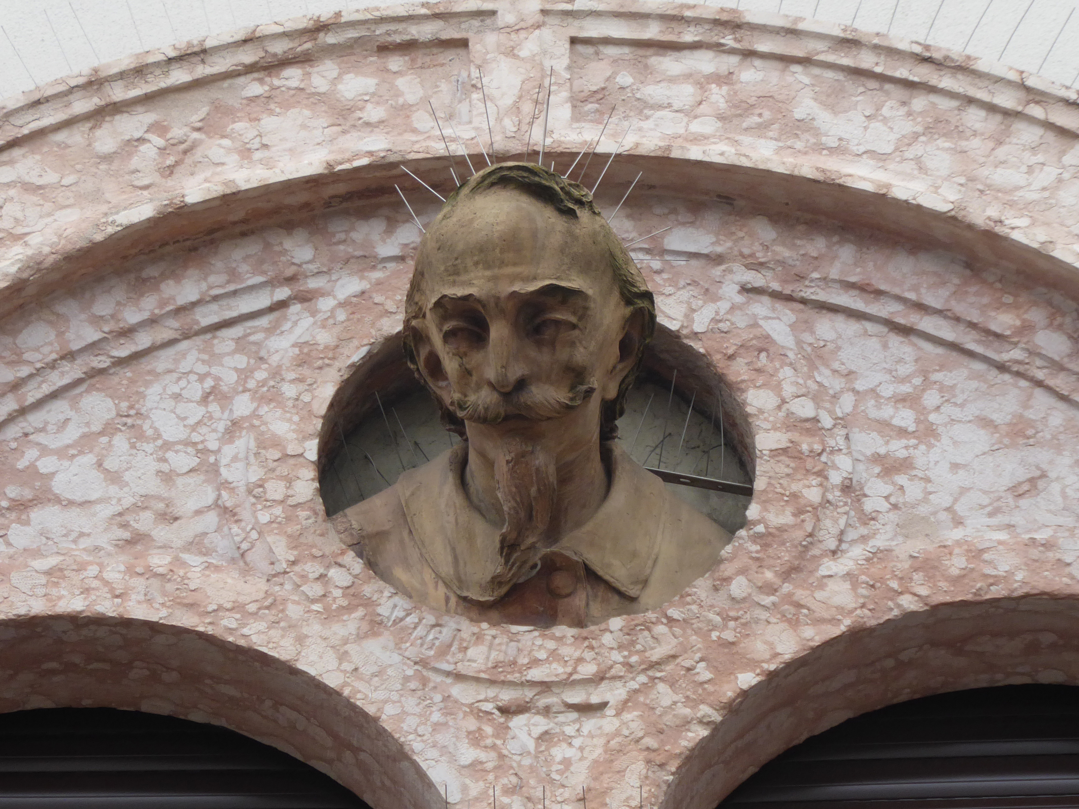 Bust of Vigilio Rubini on the facade of Palazzo Ranzi, in Trento, by Andrea Malfatti